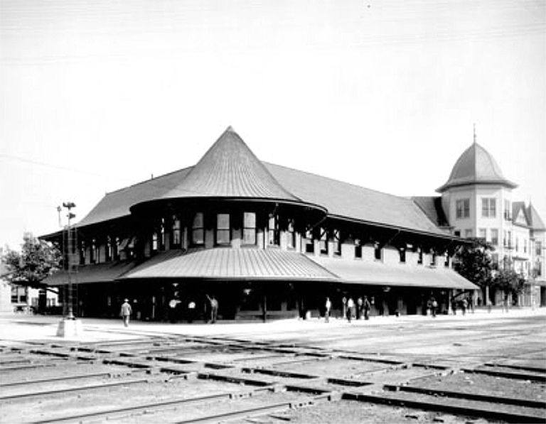 Photograph of the Seaboard Air Line Railroad depot and hotel at Hamlet, North Carolina, about 1915.